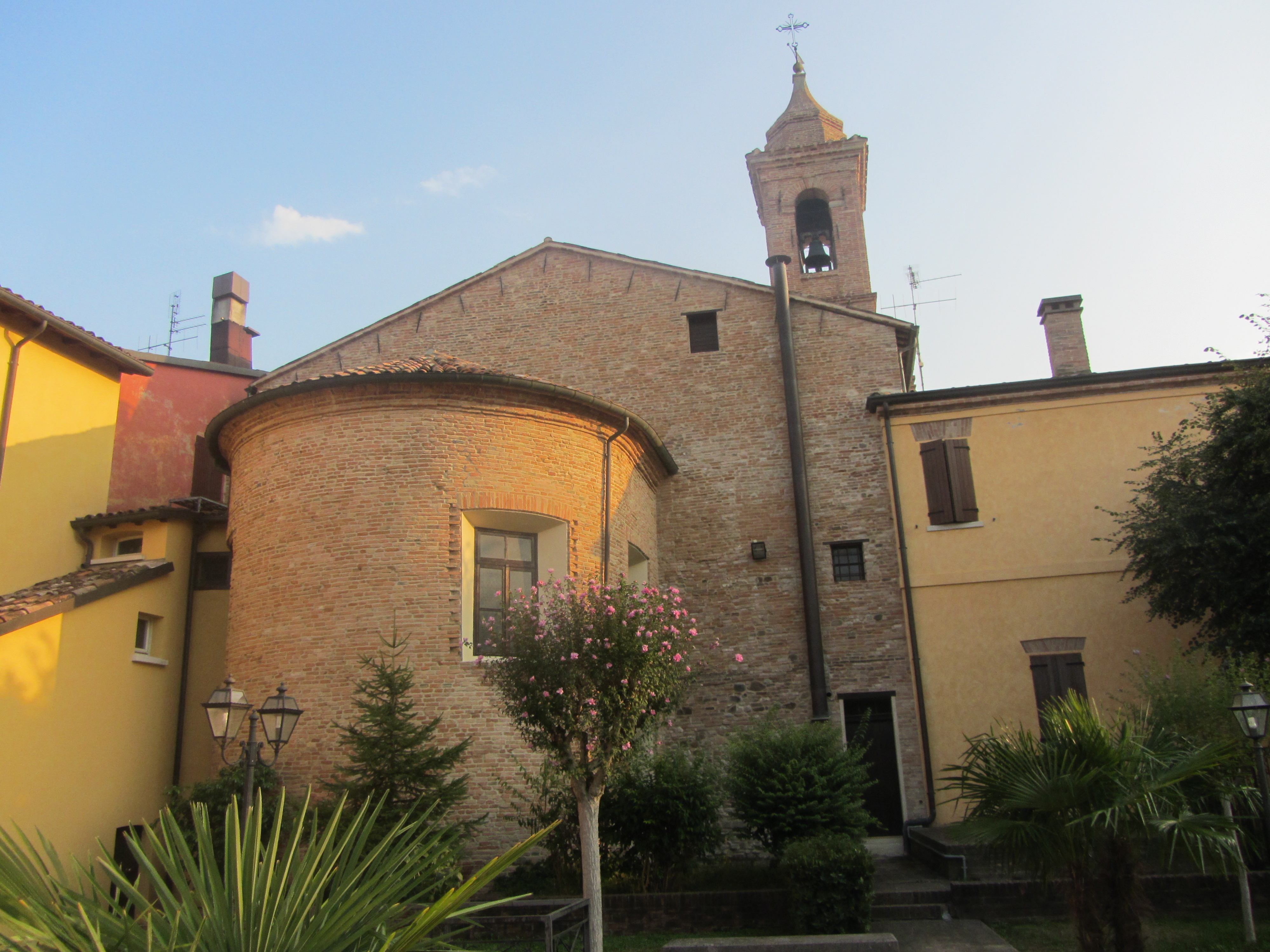 Savignano sul Rubicone, Chiesa di San Salvatore (detta del Suffragio), retro